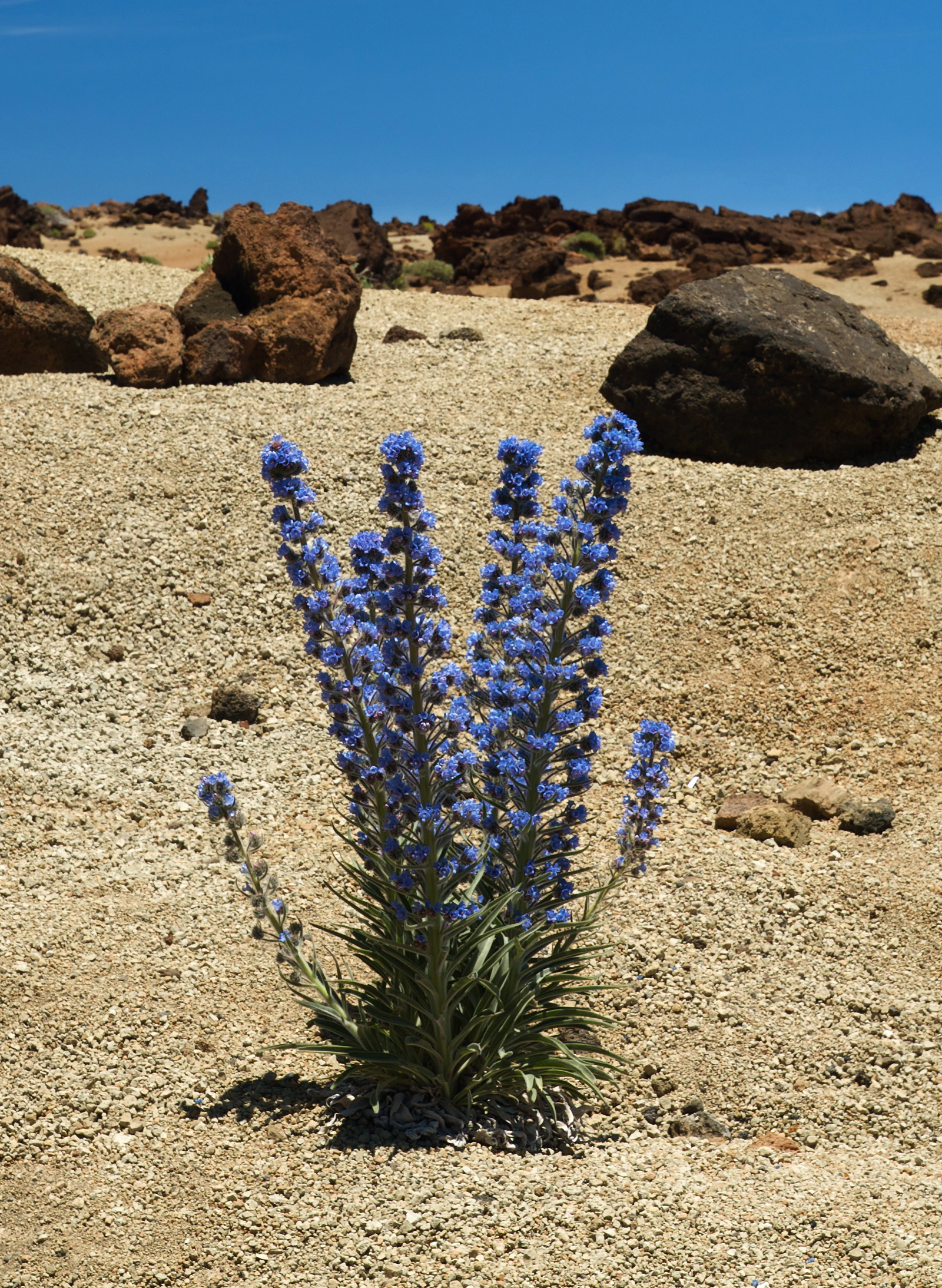 Blue Mount Teide bugloss (Echium auberianum), Tenerife, Spain